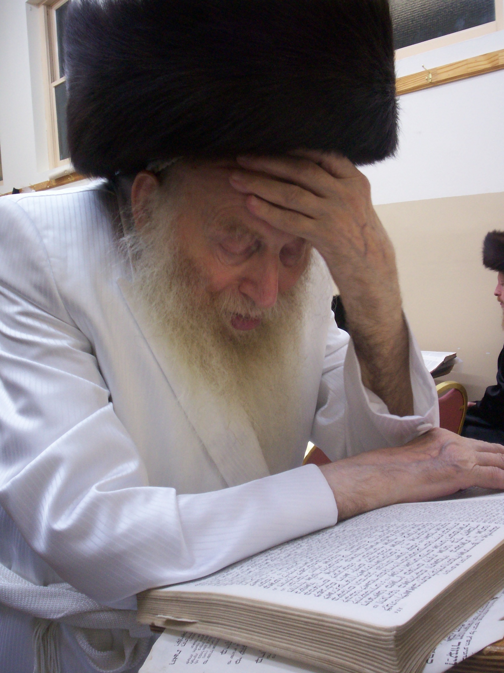 The present rebbe, Naftoli Tzvi Labin of Ziditshov